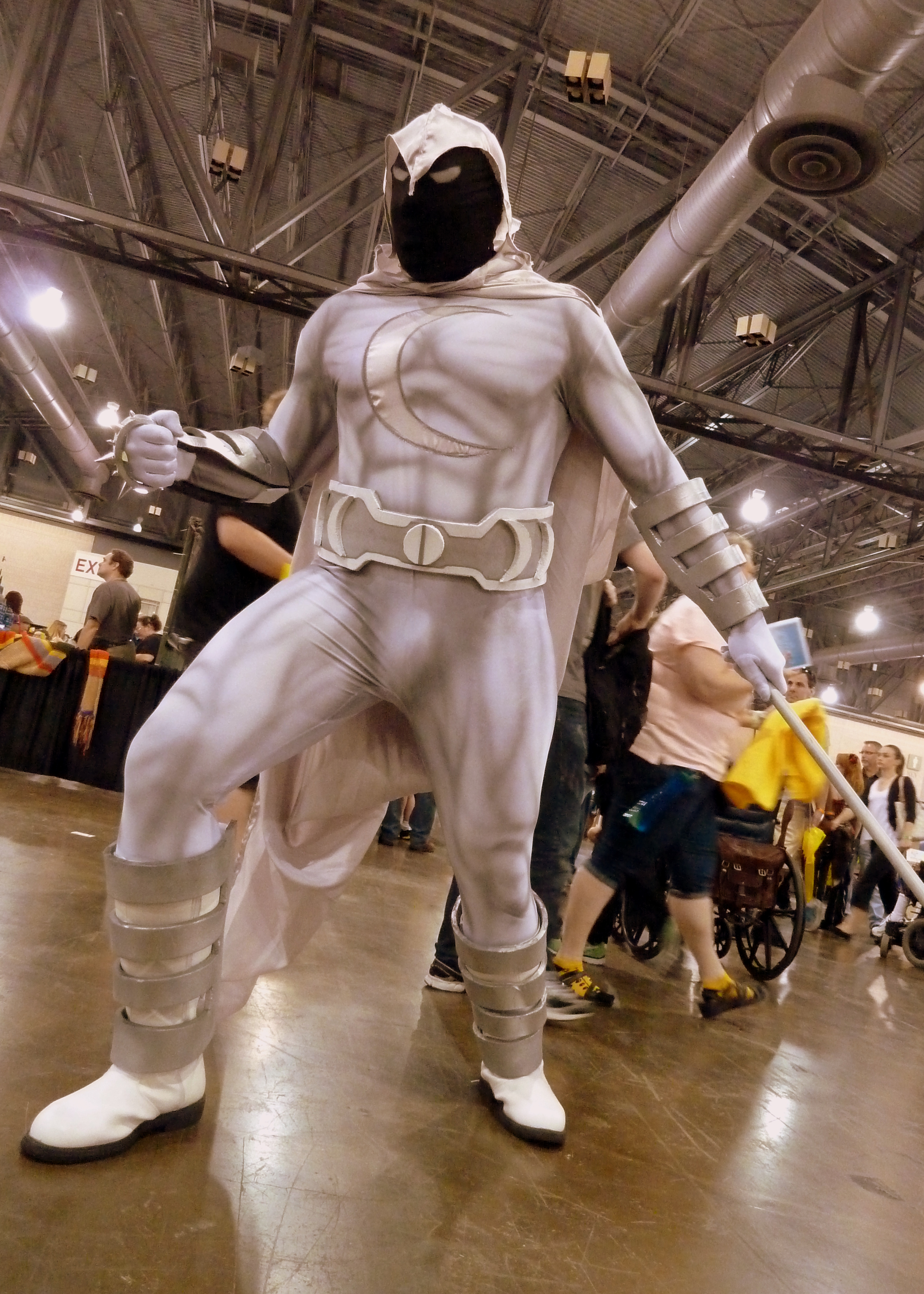 Cosplay at Wizard World Philadelphia 2013